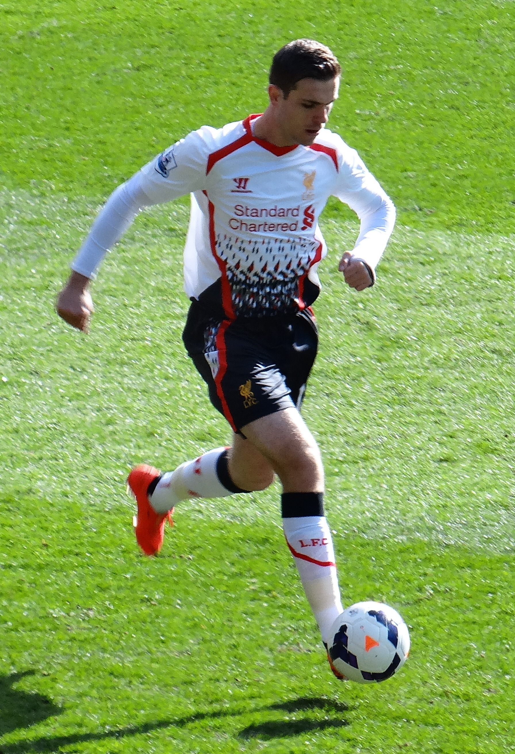 Jordan Henderson playing against Cardiff City in 2014